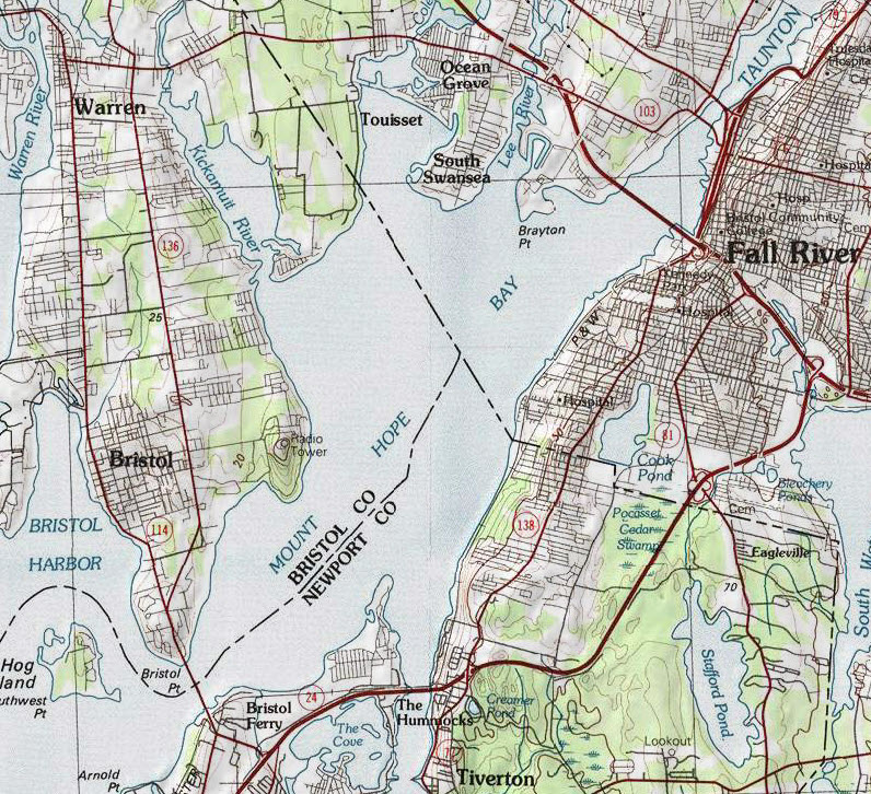 Map of Mount Hope Bay and surrounding areas.